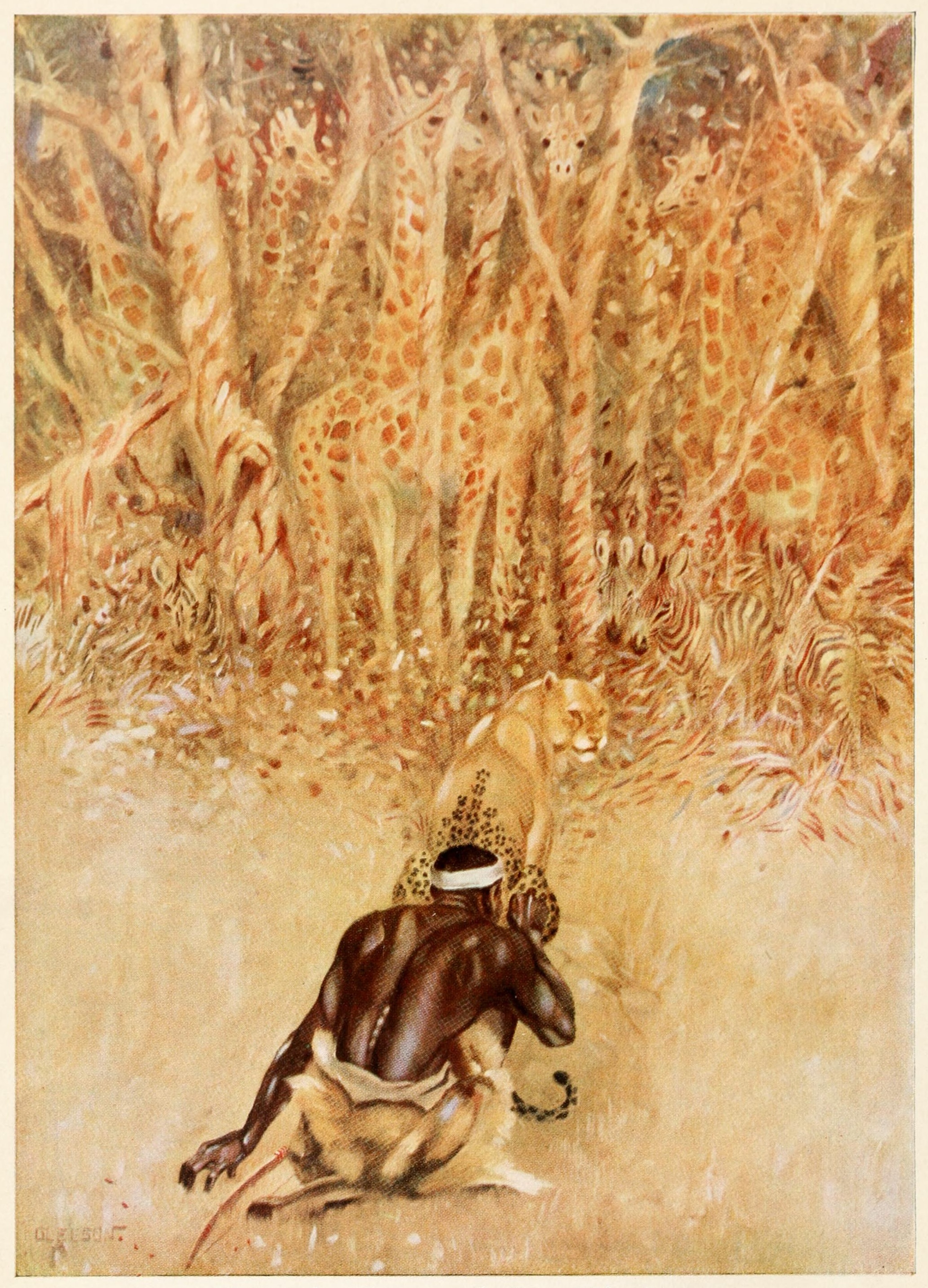 Illustration from a collection of short stories Just so stories (c1912) Garden City, N.Y. : Doubleday & Co., Inc.